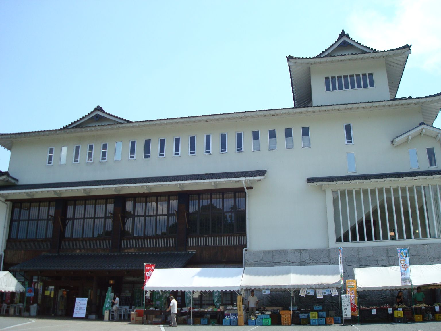 Roadside Station (Michi no eki) "Shinanoji Shimojo" along route 151 at Shimojo village, Nagano, Japan.